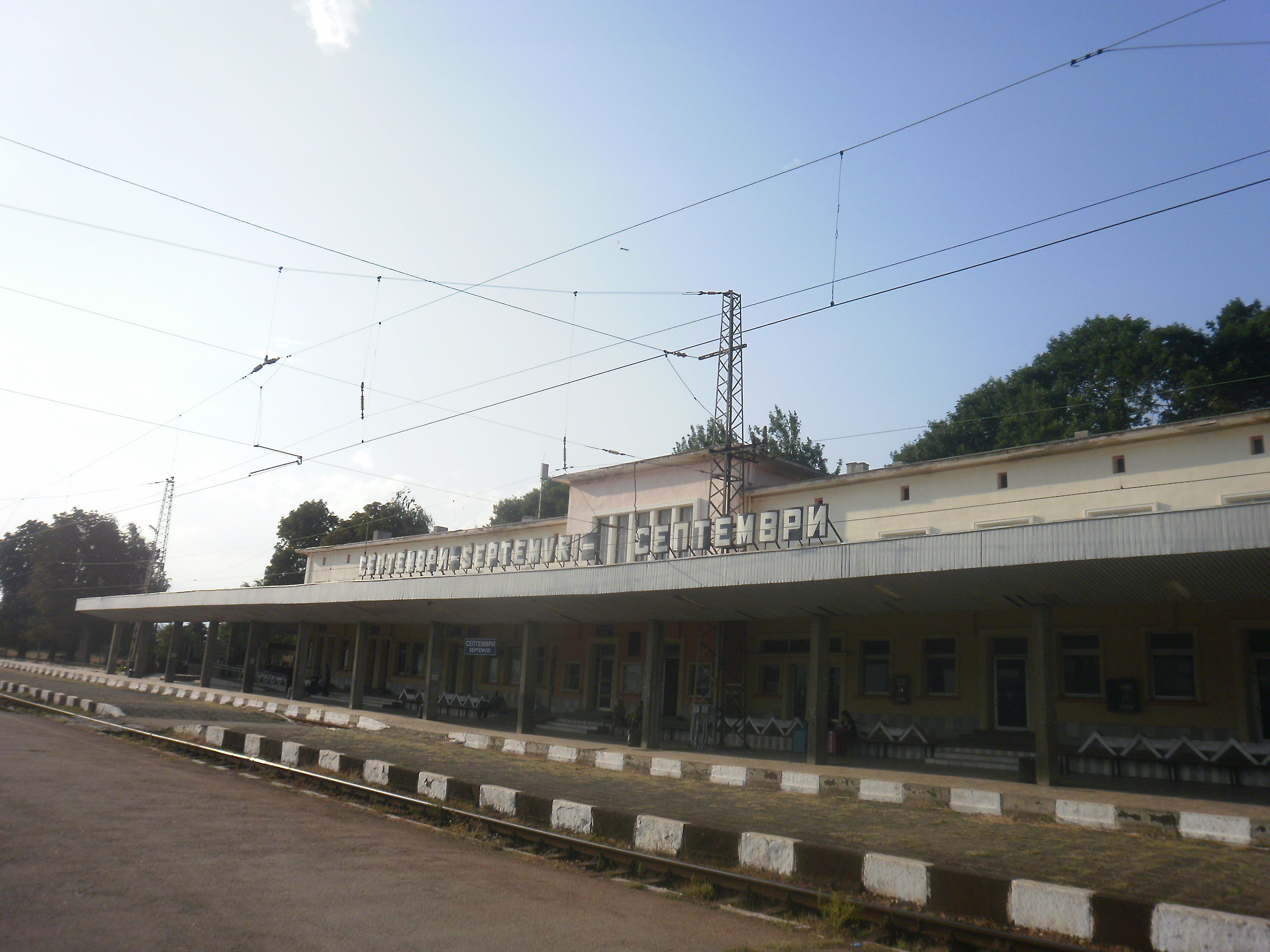 Septemvri station, Bulgaria.